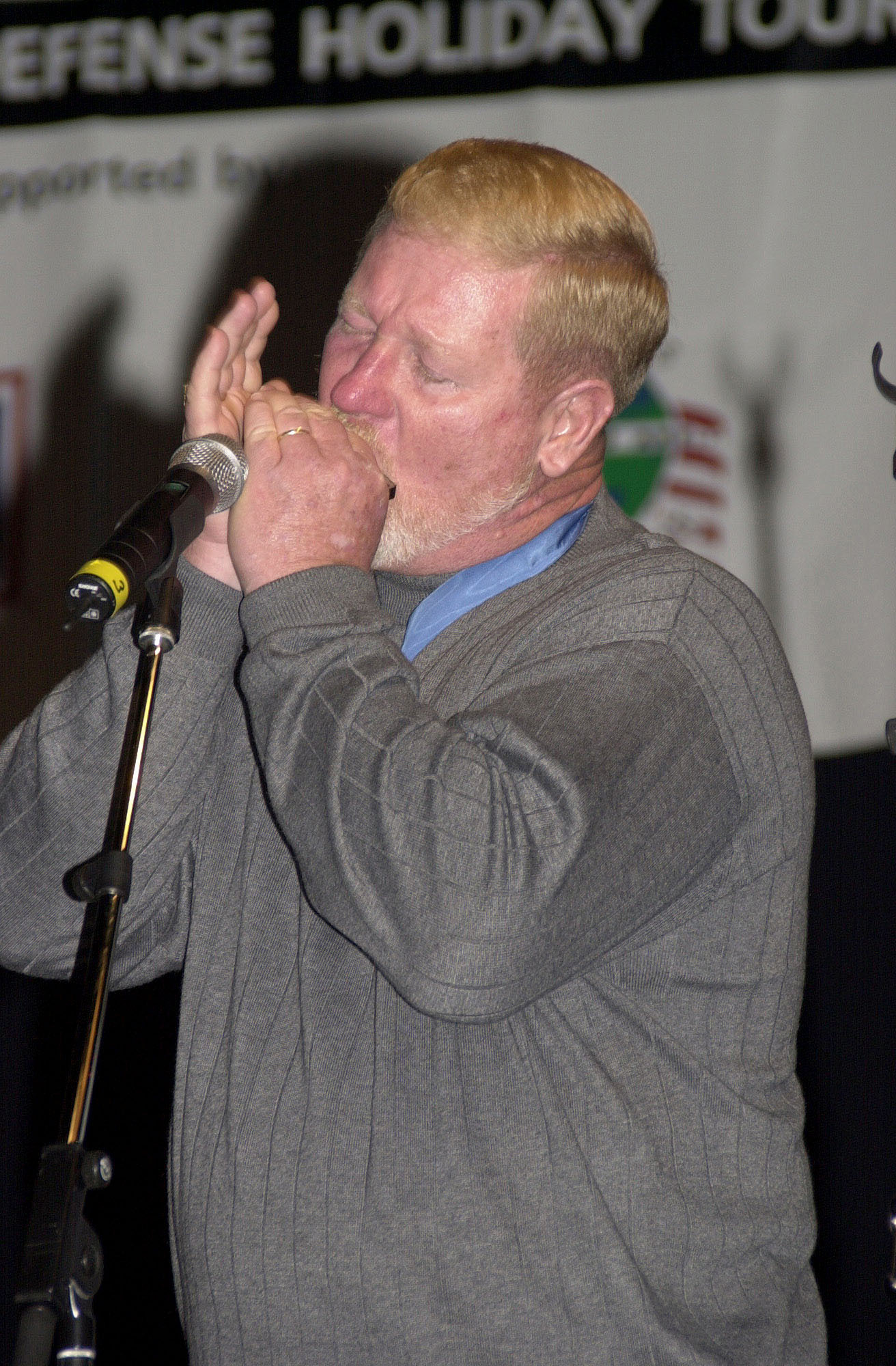 Medal of Honor winner Mr. Sammy Davis plays "Shenandoah" on the harmonica for the military audience at Ramstein Air Base, Germany, during the Secretary of Defense, William S. Cohen's Holiday Show 2000.